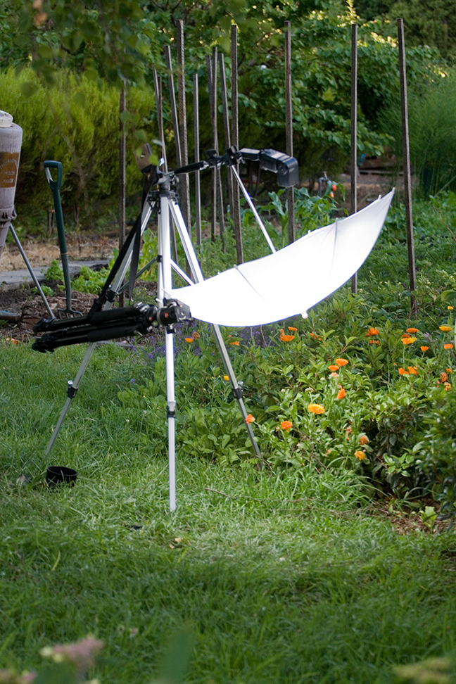 Shoot through Umbrella in use